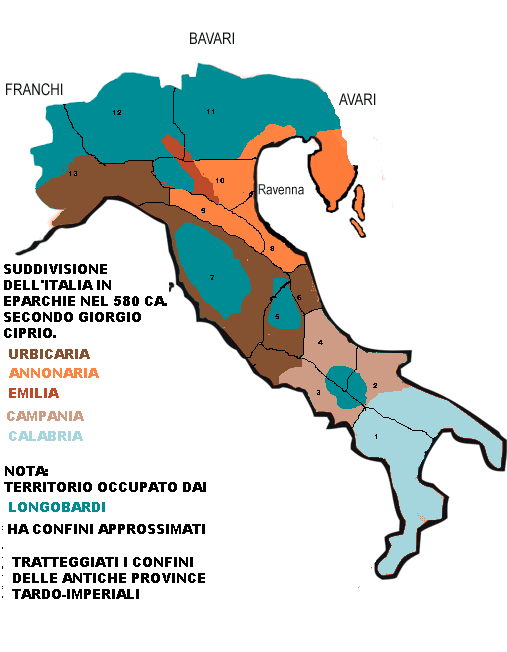 Byzantine Italy in 580, divided into eparchies according to George of Cyprus.